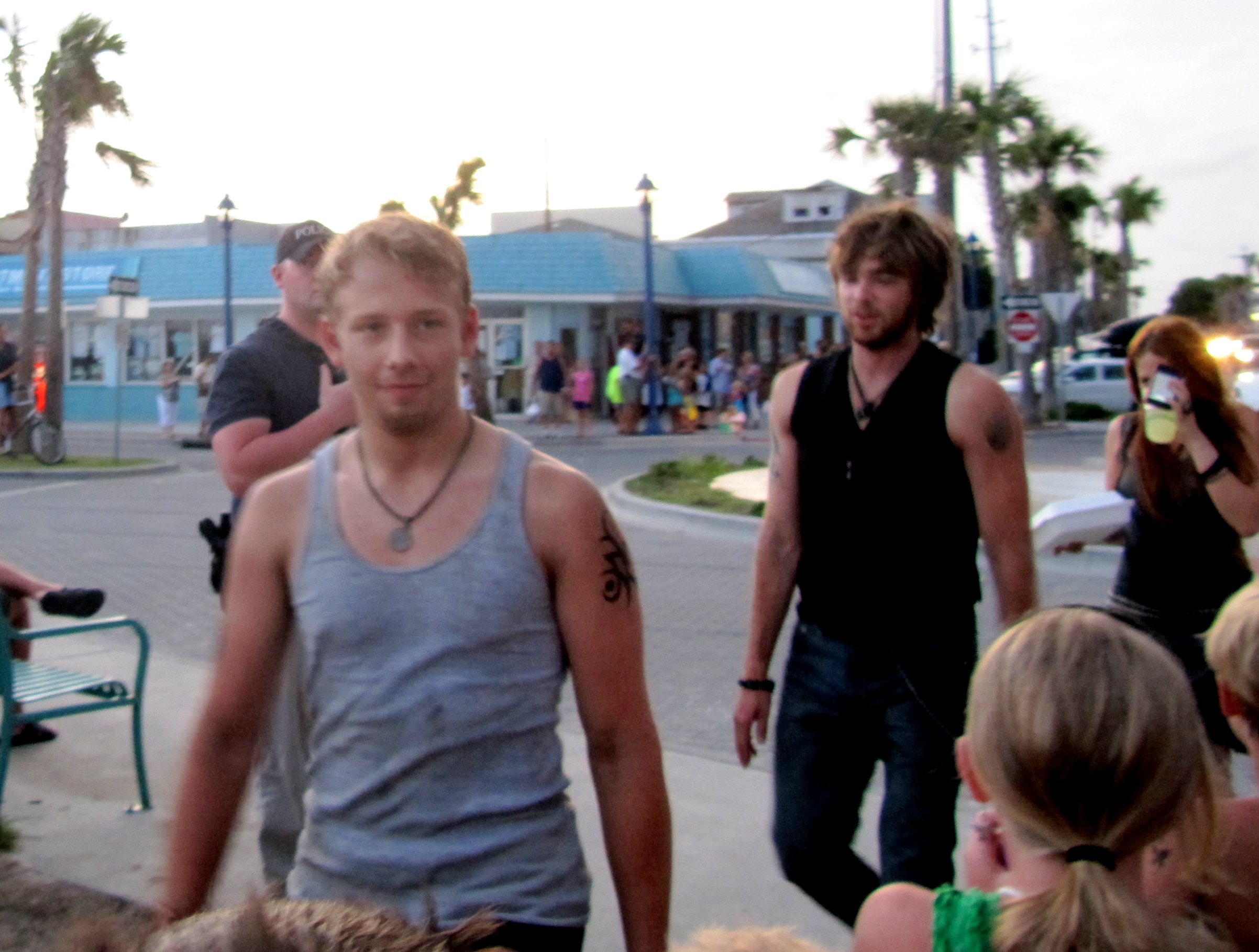 A crowd watches as Adam Barnett, Nick Lashaway, and Carly Chaikin walk toward the Tybee Island pavillion, where the bonfire scene took place.